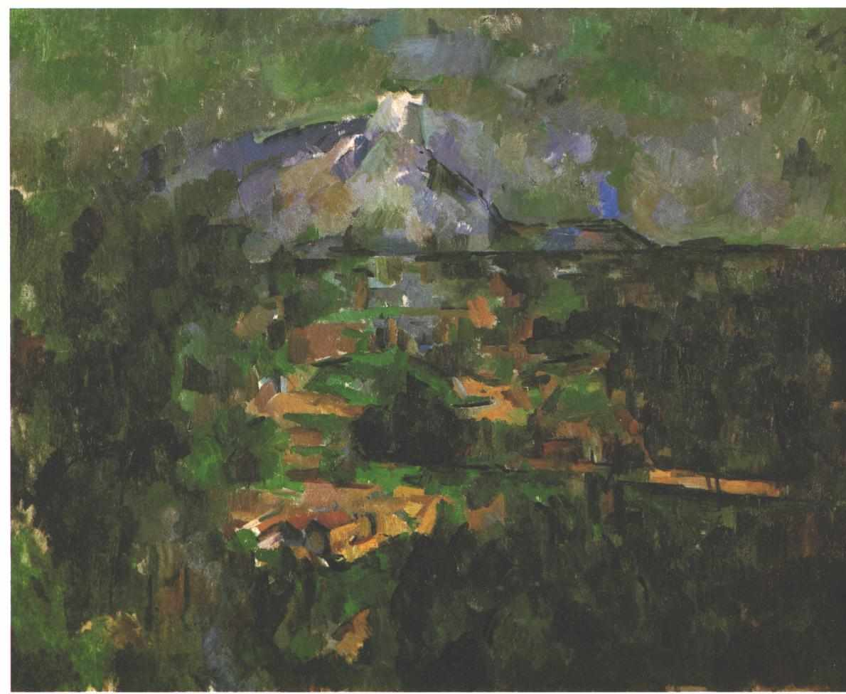 Mont Sainte Victoire - view from Lauves